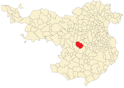 Canet d'Adri